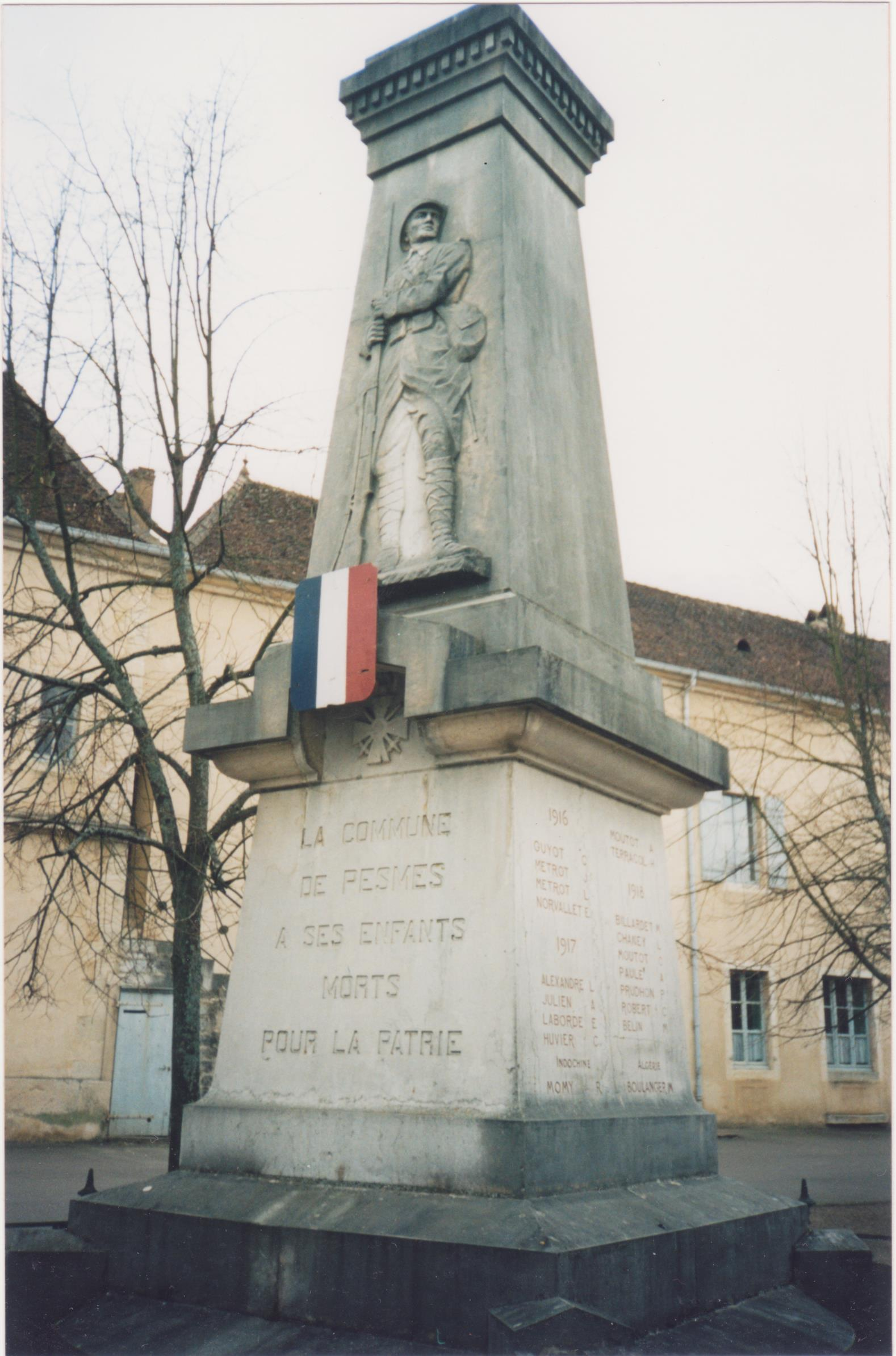 a monument in commemoration of the residents of Pesmes,France, who were killed during WWI